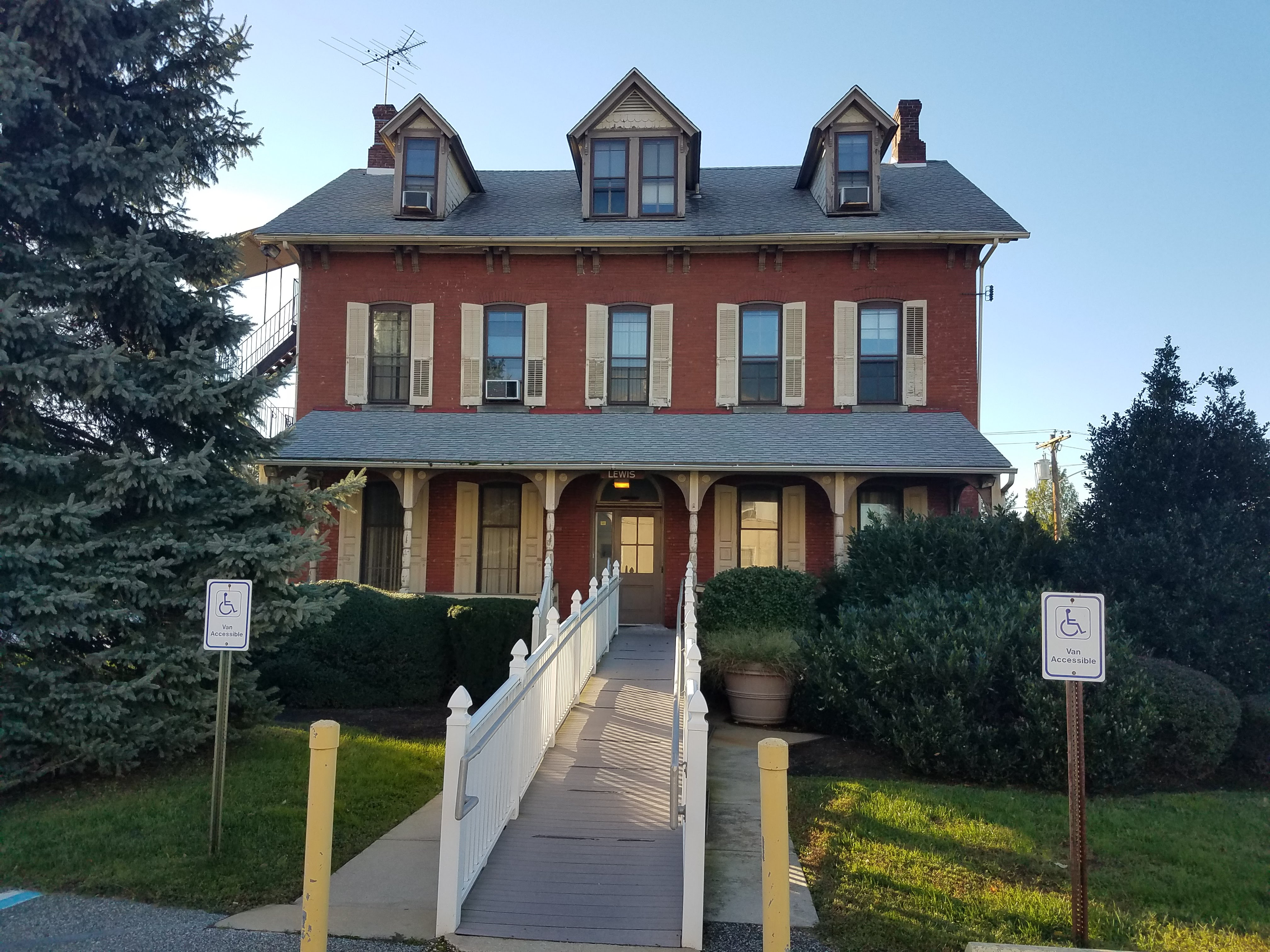 Lewis House, part of the Crozer Theological Seminary in Chester, Pennsylvania. Photo taken Oct. 2018